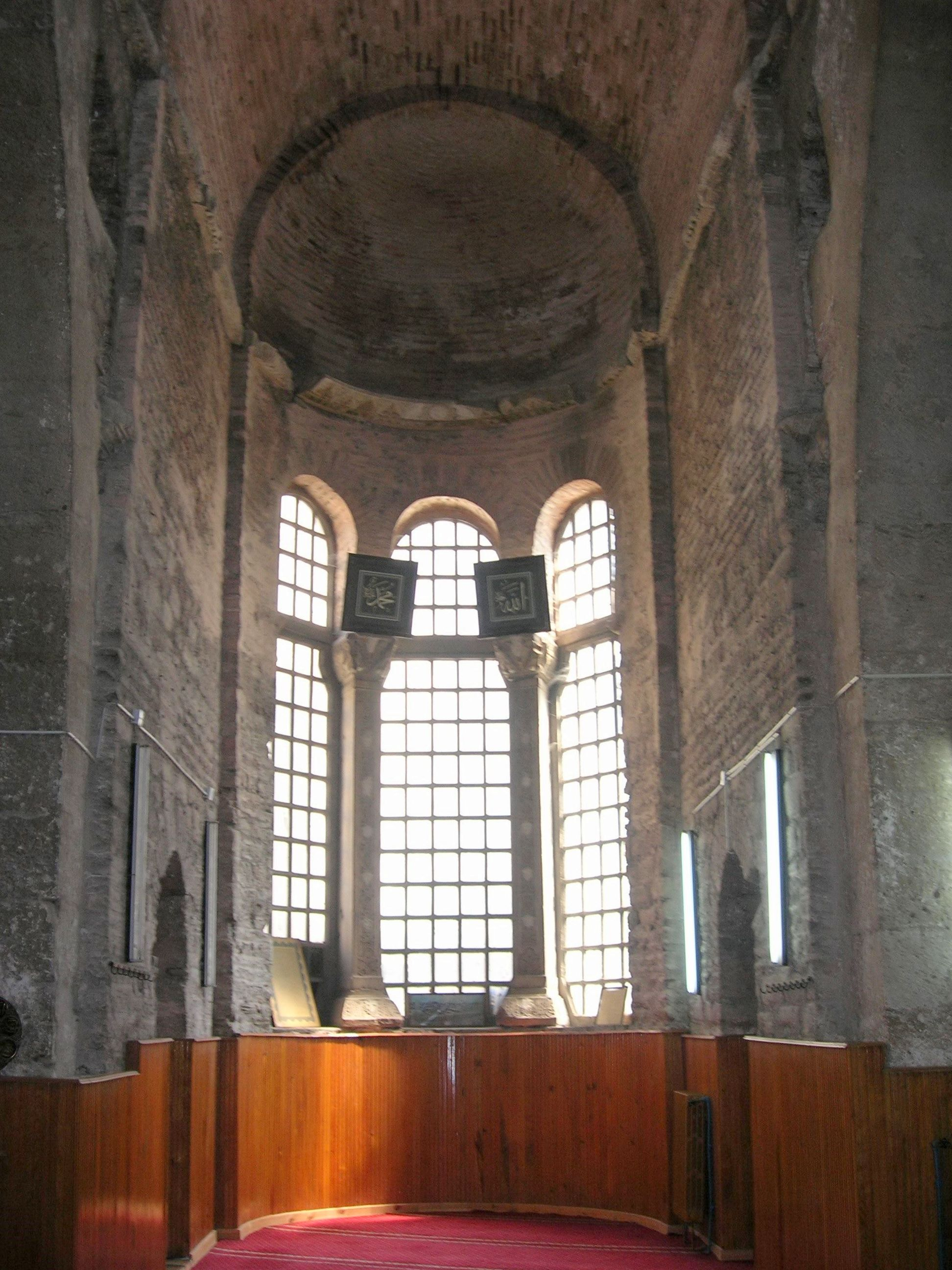 The interior of the former North Church of the monastery of Constantine Lips( today mosque of Fenari Isa) in Istanbul